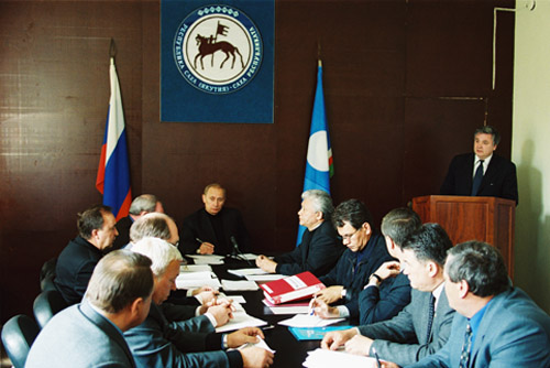 LENSK, YAKUTIA. Vladimir Putin chairing a conference on measures to overcome the consequences of the flood in Yakutia.